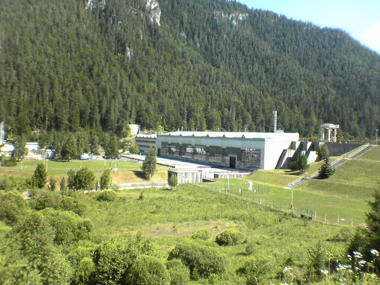 Čierny Váh power station2